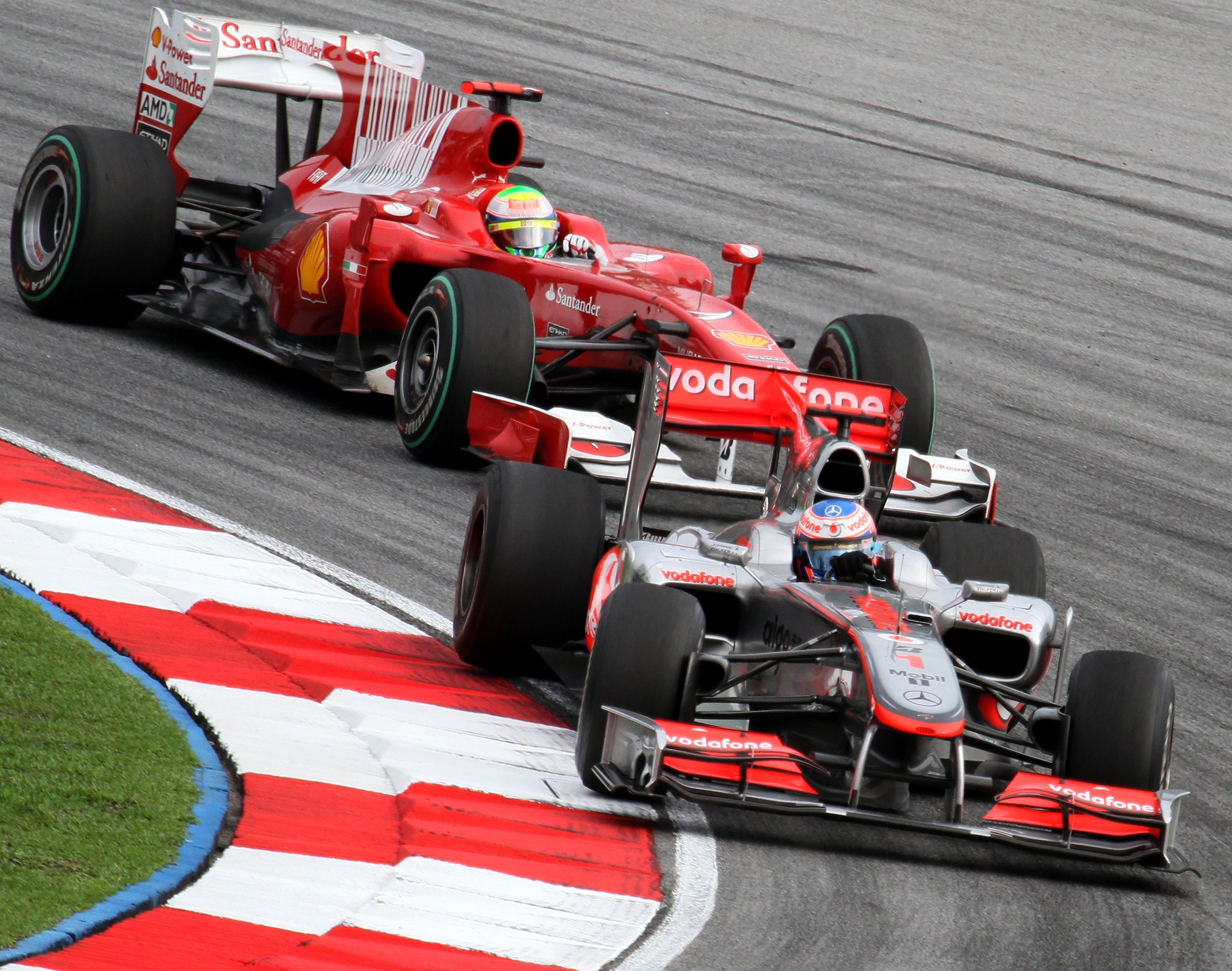 Formula One 2010 Rd.3 Malaysian GP: Jenson Button (McLaren) leads Felipe Massa (Ferrari)